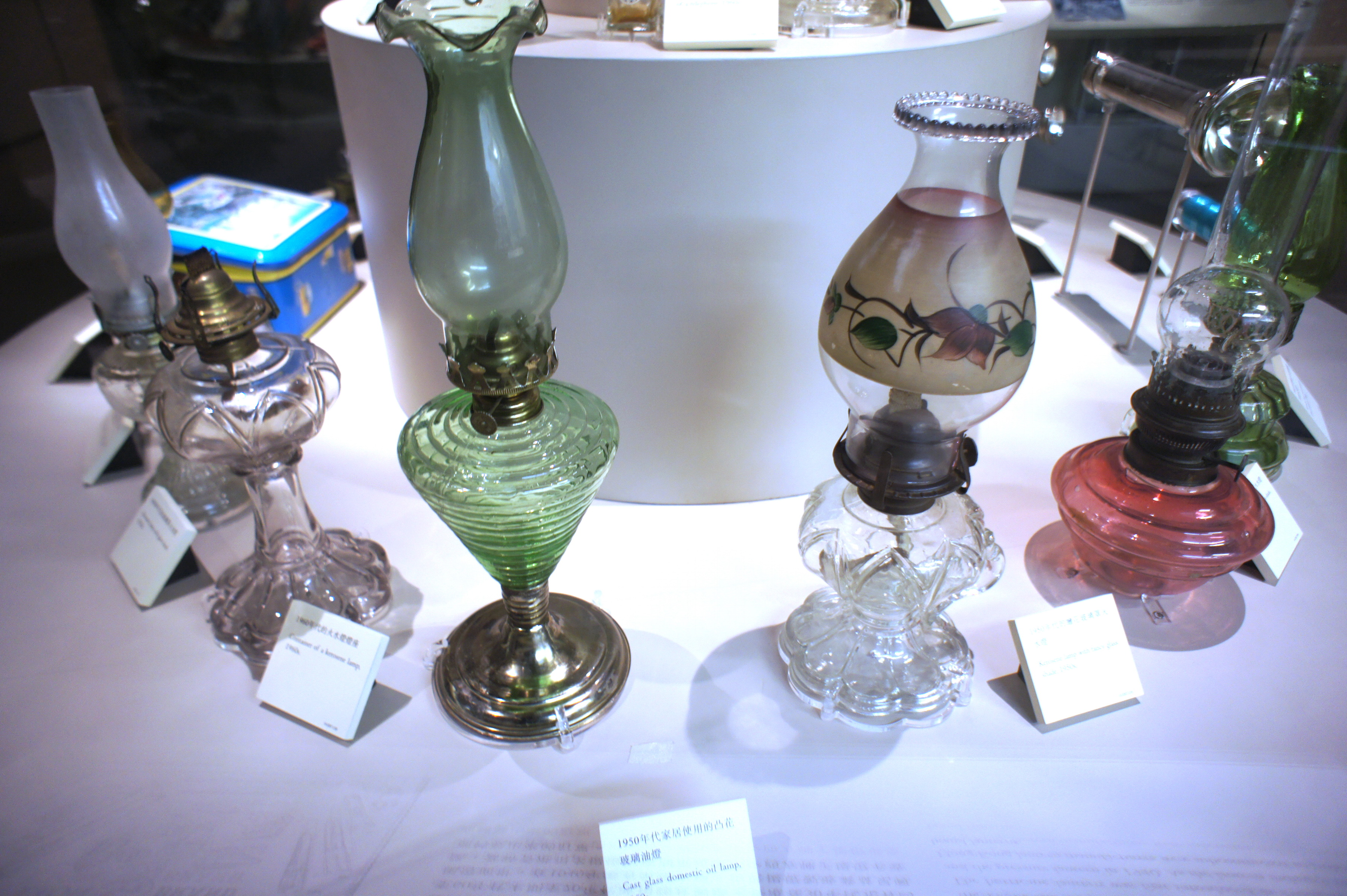 Kerosene lamps (exhibits of the Hong Kong Museum of History)